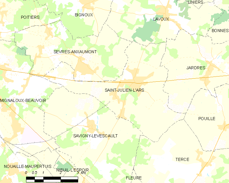 Map of French municipality Saint-Julien-l'Ars